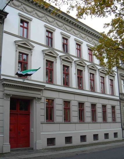 Corpshaus im Herbst 2006